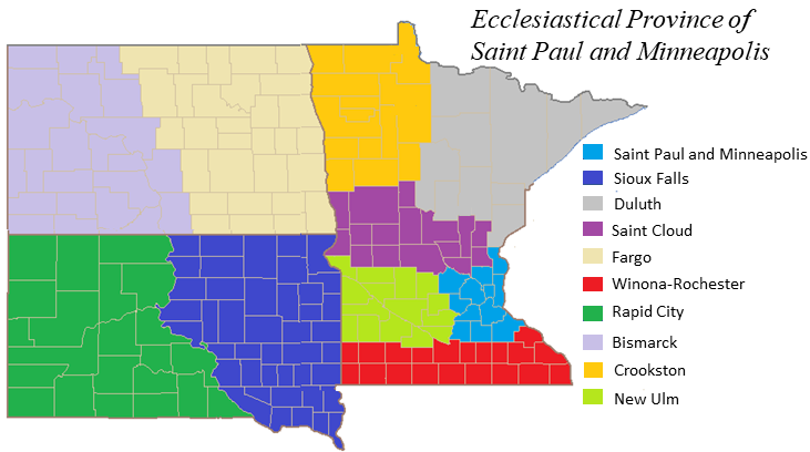 Roman Catholic Ecclesiastical Province of Saint Paul and Minneapolis. The province is comprised of the US states of Minnesota, South Dakota, and North Dakota.